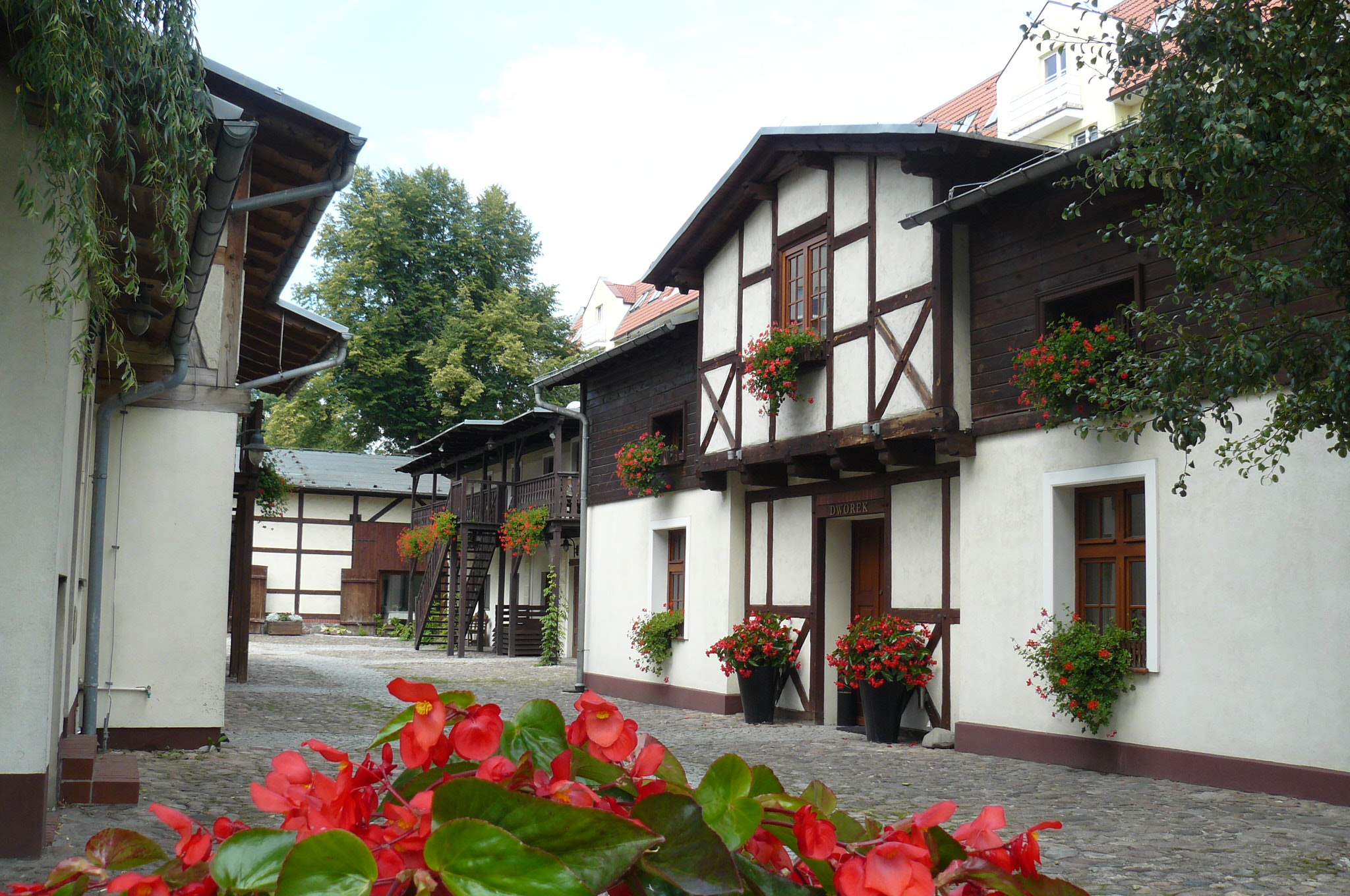 Poznań, Kościelna street. The old rural buildings. Remains of ancient settlements from Bamberg.